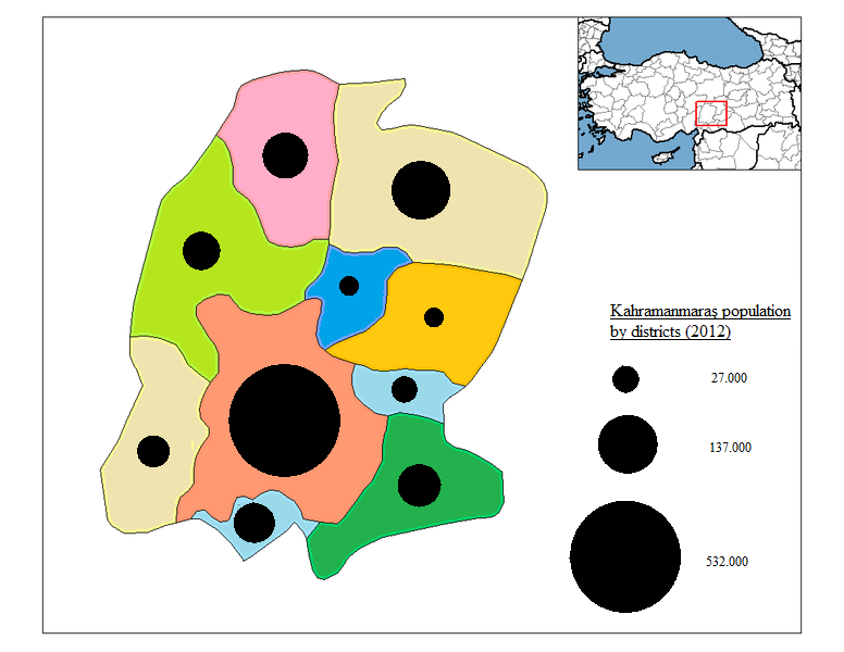 Kahramanmaras province. Proportional circle map of the population by districts (ilçe) in 2012. Population of Districts: Afşin 85.339 Andırın 39.441 Elbistan 137.283 Göksun 55.370 Merkez 532.216 Pazarcık 74.259 Türkoğlu 65.055 Çağlayancerit 26.701 Ekinözü 14.815 Nurhak 14.337 Source: [1]